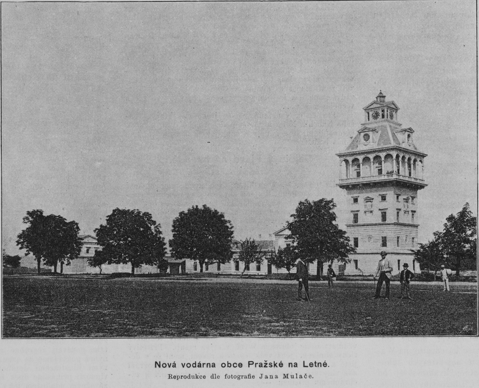 Letná Water Tower in Prague (present-day Czech Republic) around the time of its opening.